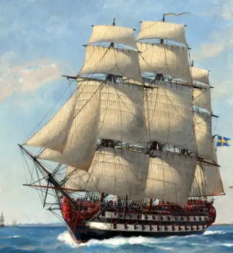 Crop of a painting Svensk eskader i Öresund by Jacob Hägg